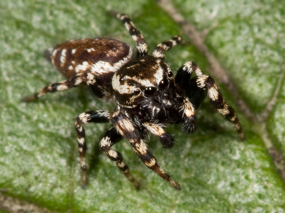 Adult male Peppered jumper (Pelegrina galathea) found at Shelby Park in Nashville, Tennessee